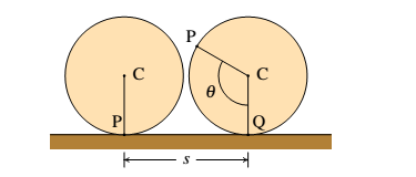 Roda que se desloca sem derrapar.